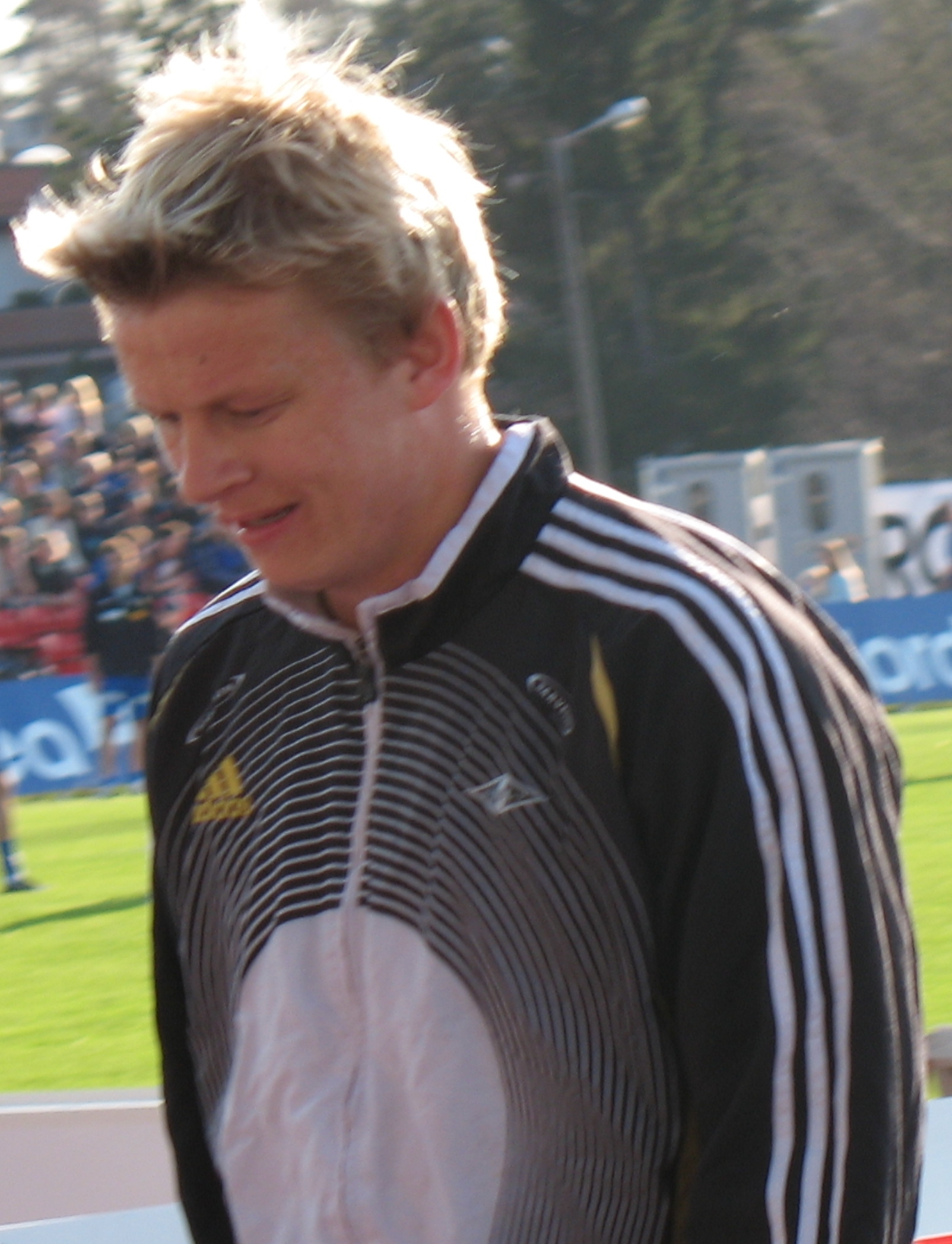 Norwegian footballer Steffen Iversen.